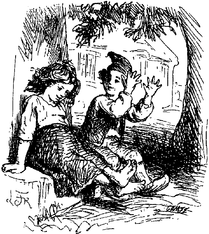 children